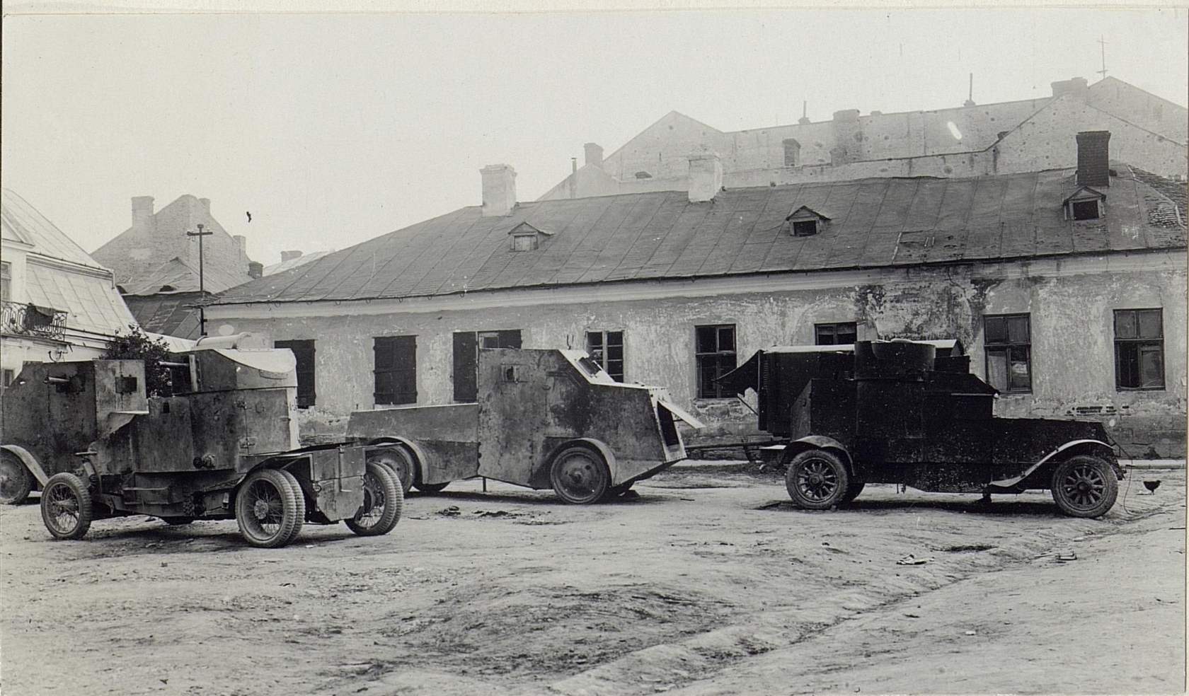 Russian armoured cars captured by Austrian forces: two Jeffery-Poplavo, Lanchester (left) and Austin the 2nd series (right), in Zlochov.